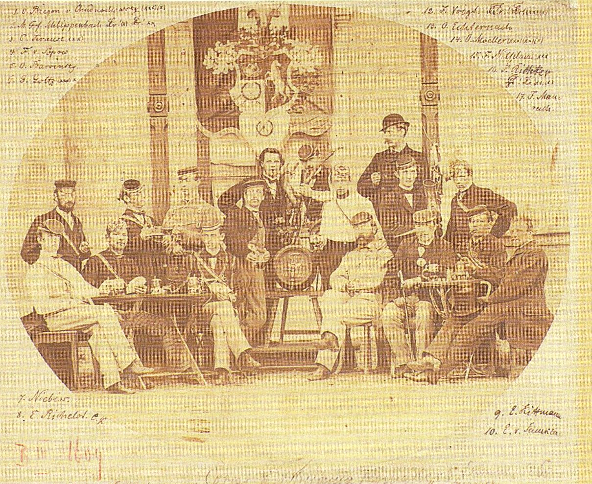 Photography of the student members of the Corps Litthuania in Königsberg